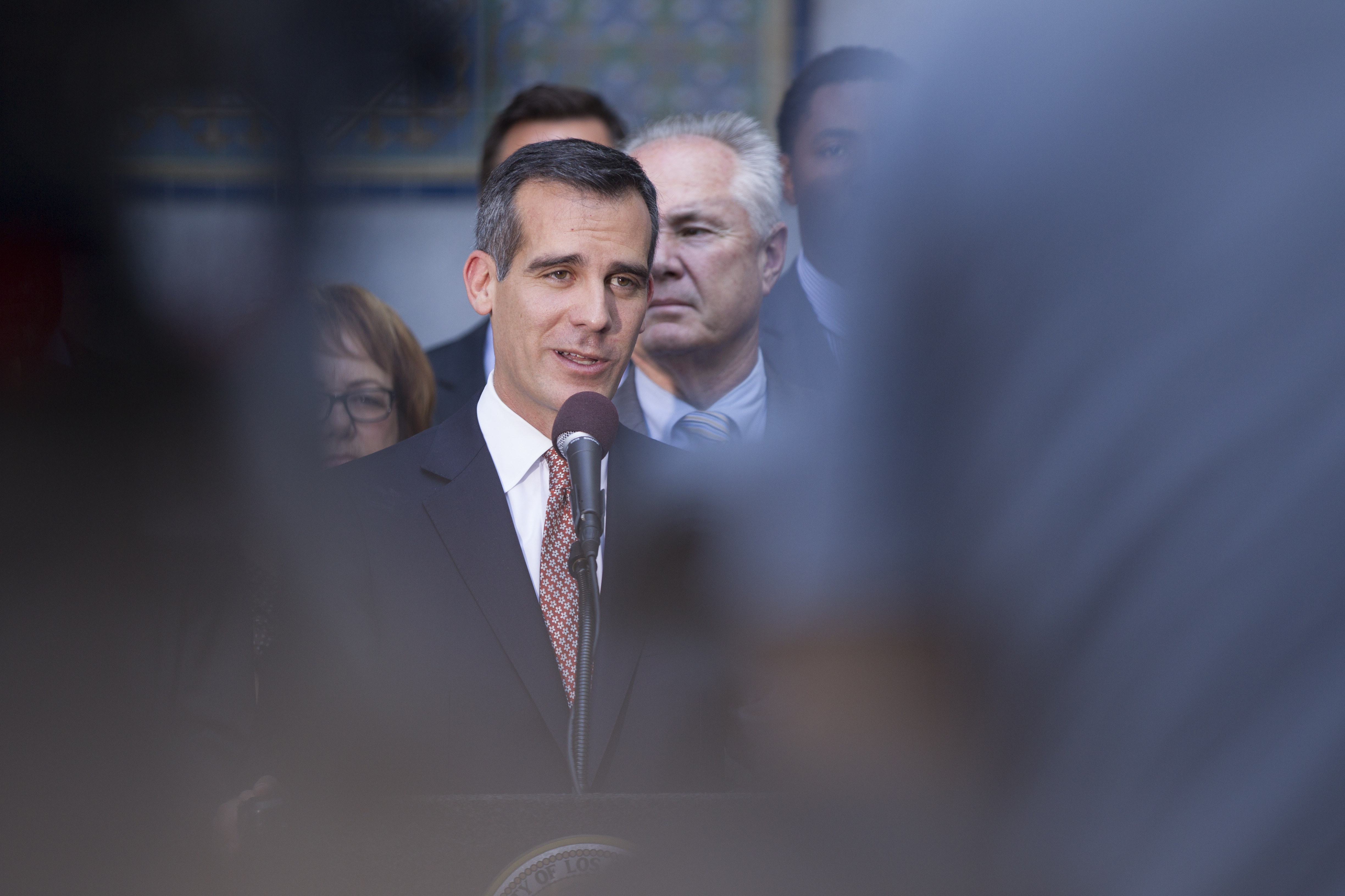 Los Angeles Mayor Eric Michael Garcetti speaking at City Hall. 4/29/2014